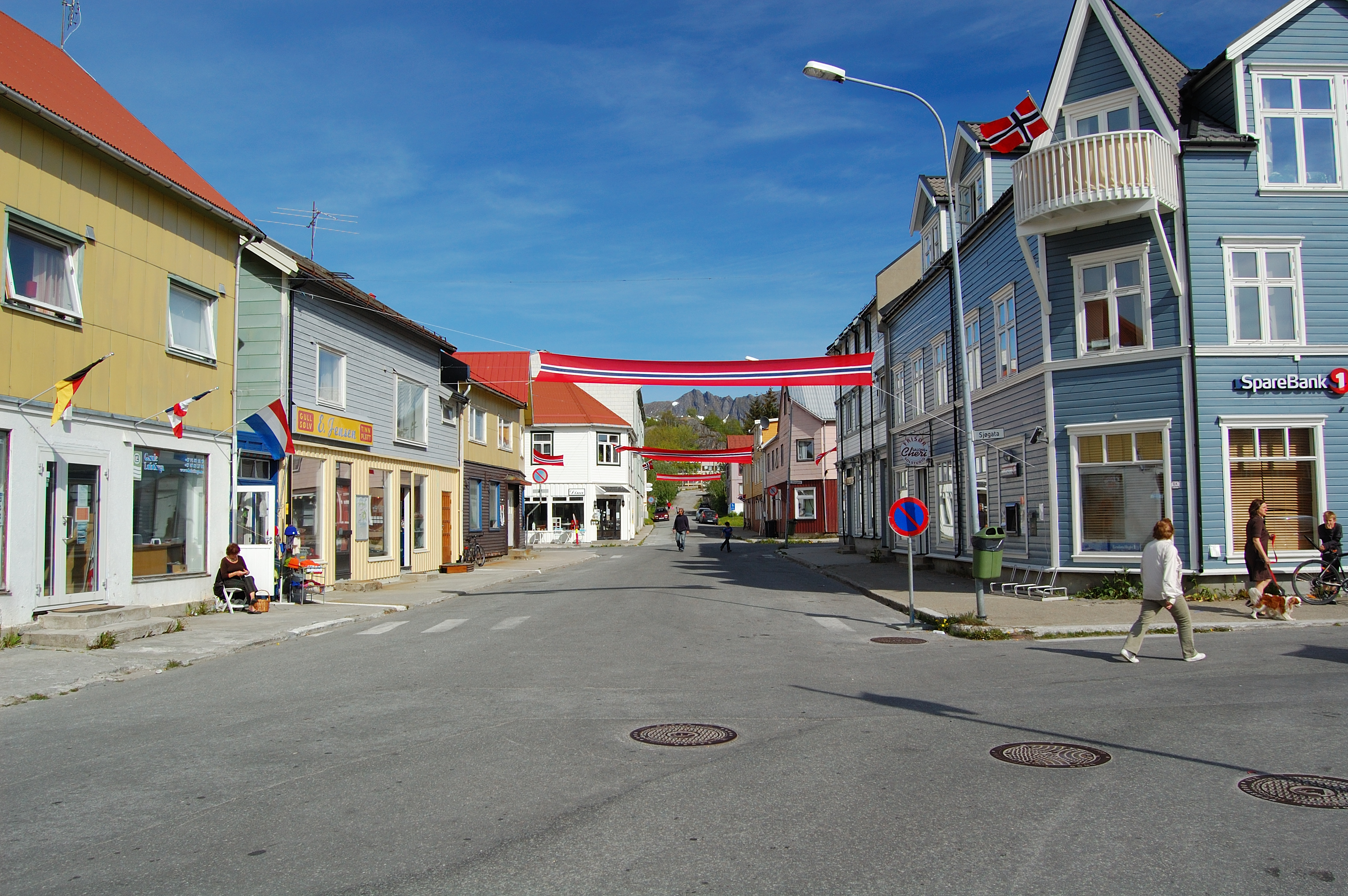 A centre of the village of Kabelvåg in Lofoten, Norway.